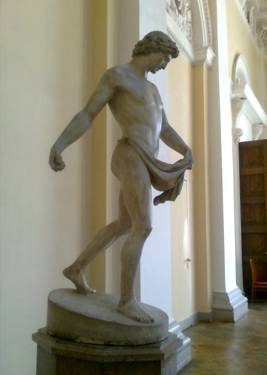 Vasily Kreitan (1832-1896) Sower Vasily Kreitan (1832–1896) Alternative names